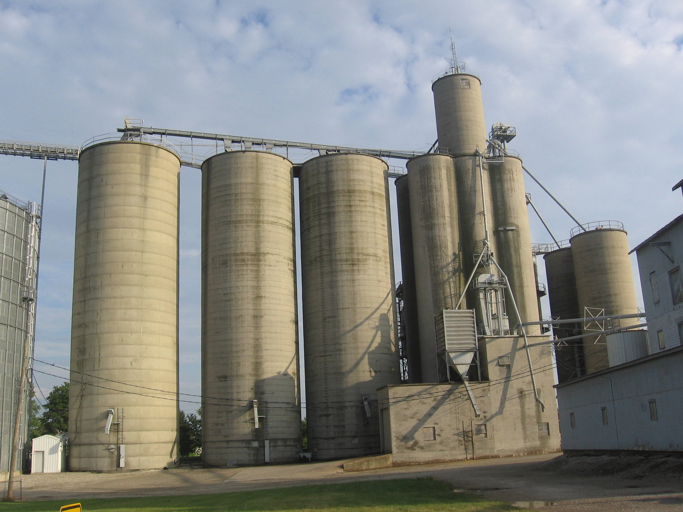 The tallest buildings in Edon, Ohio.